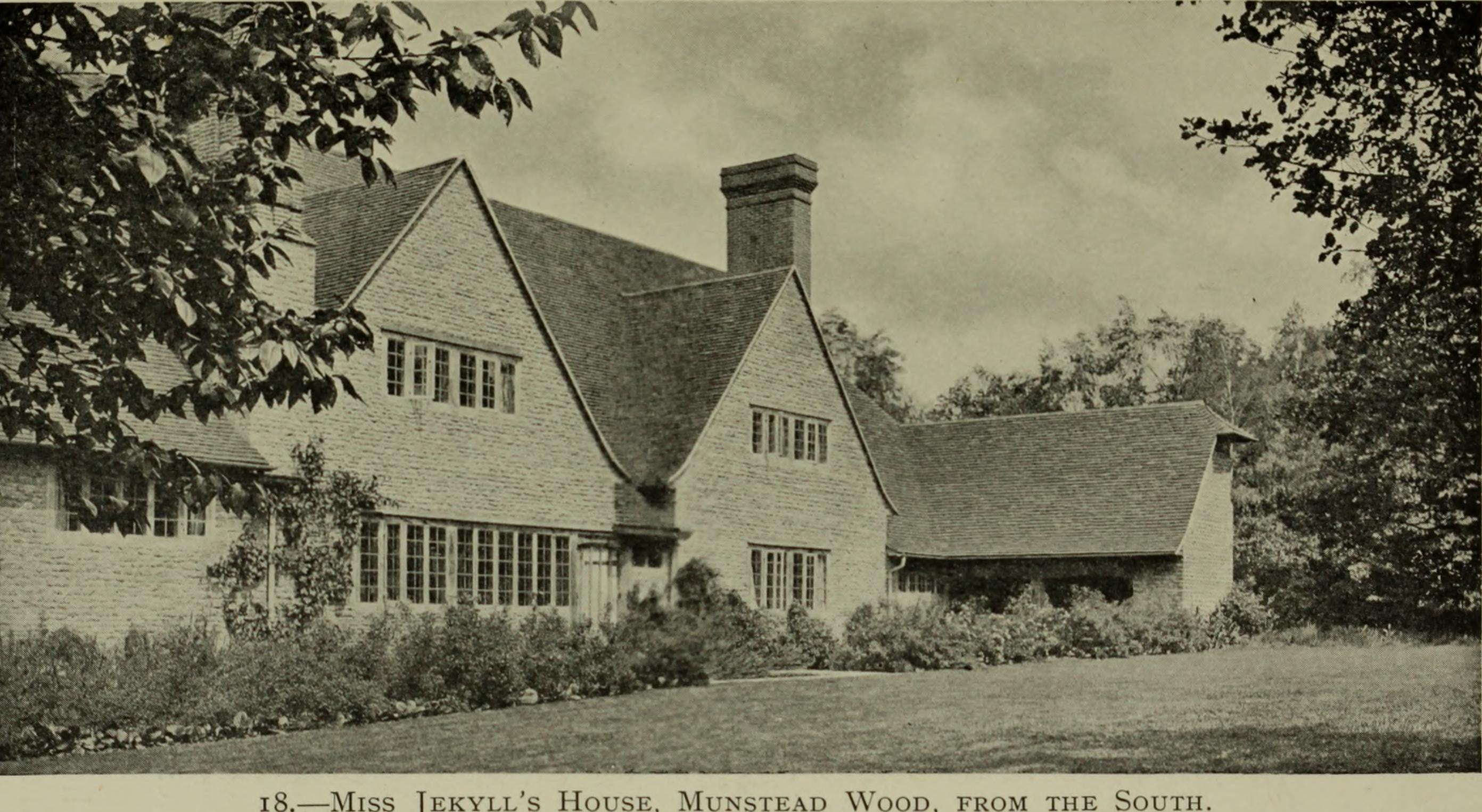 Illustration of Munstead Wood, Godalming, Surrey in "Lutyens houses and gardens" (1921).